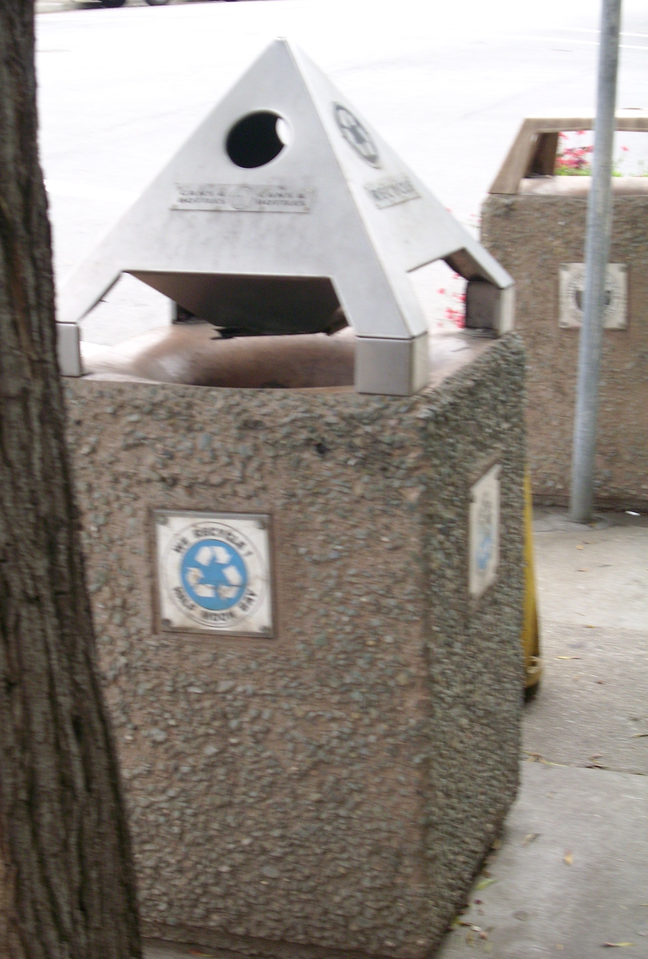 A recycling bin in Half Moon Bay, California